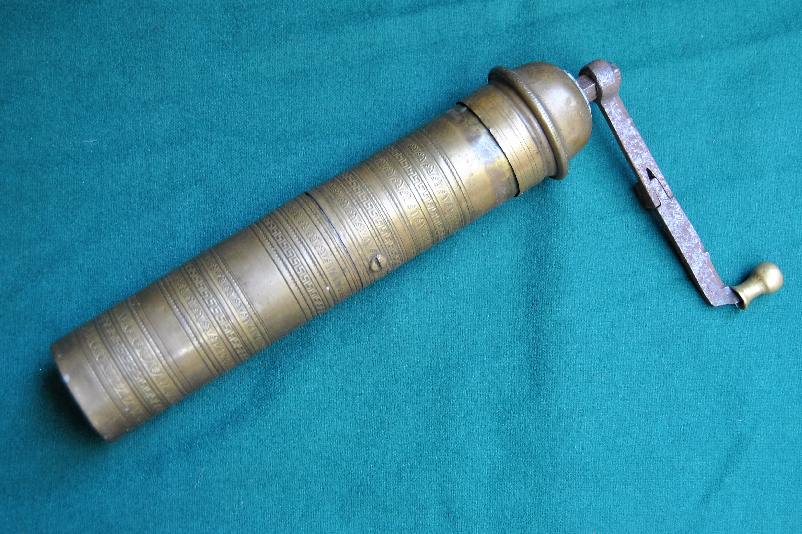 Coffee mill from 1931, Museum in Smederevo